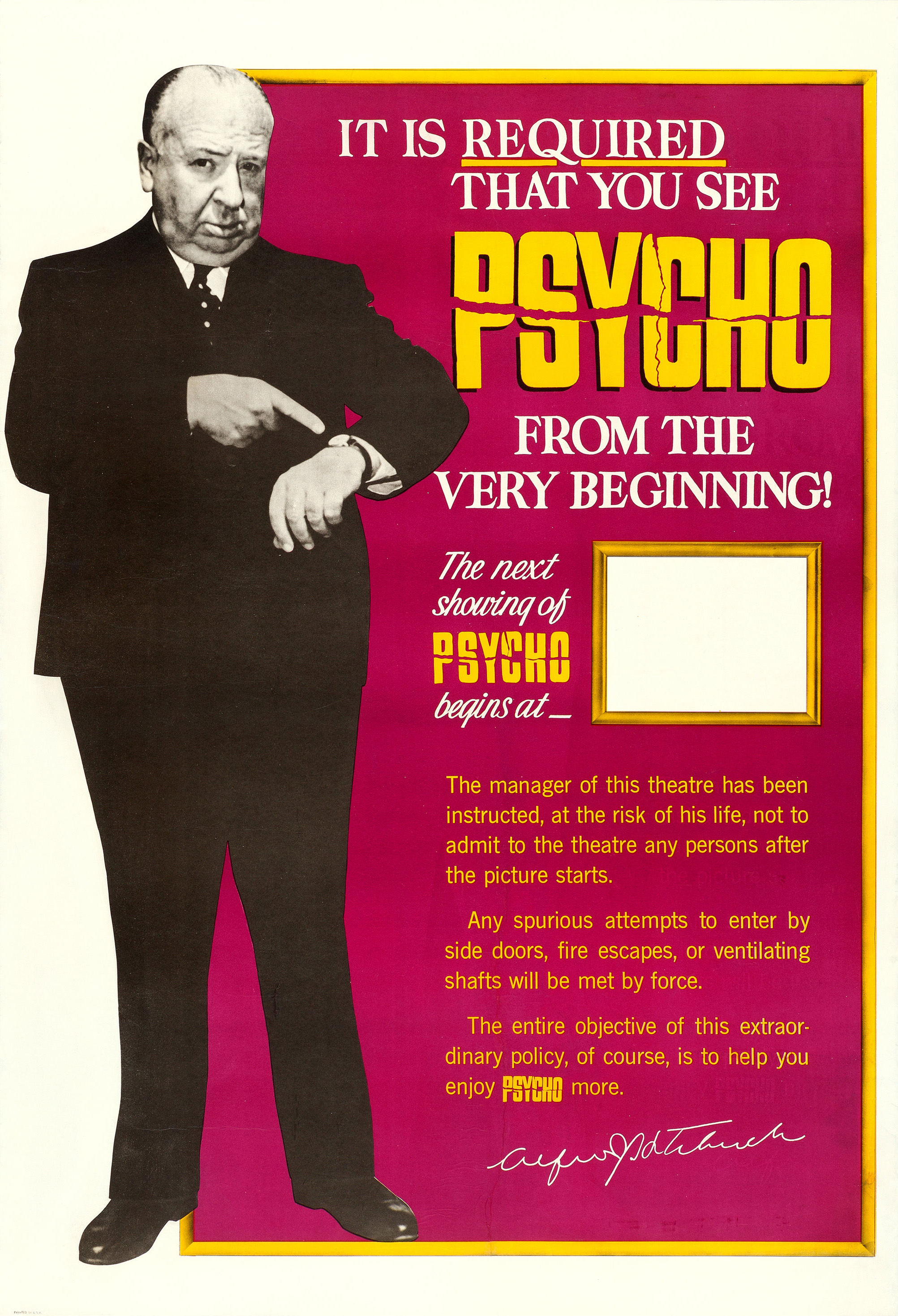 Poster for the American theatrical release of Alfred Hitchcock's 1960 film Psycho reminding the audience of its "no late admissions" policy for screenings, which was highly unusual for the time. Hitchcock stands at left, pointing at his wristwatch and sternly gazing at the viewer. The message reads: "It Is Required That You See Psycho From the Very Beginning! The next showing of Psycho begins at... [empty box for inclusion of showtime] The manager of this theatre has been instructed, at the risk of his life, not to admit to the theatre any persons after the picture starts. Any spurious attempts to enter by side doors, fire escapes or ventilating shafts will be met by force. The entire objective of this extraordinary policy, of course, is to help you enjoy Psycho more."— Alfred Hitchcock [signature]